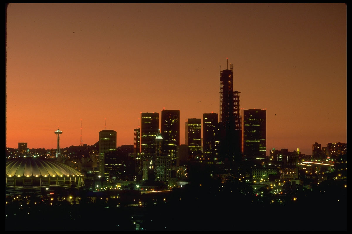 Seattle, Washington skyline from south at sunset, circa 1973.